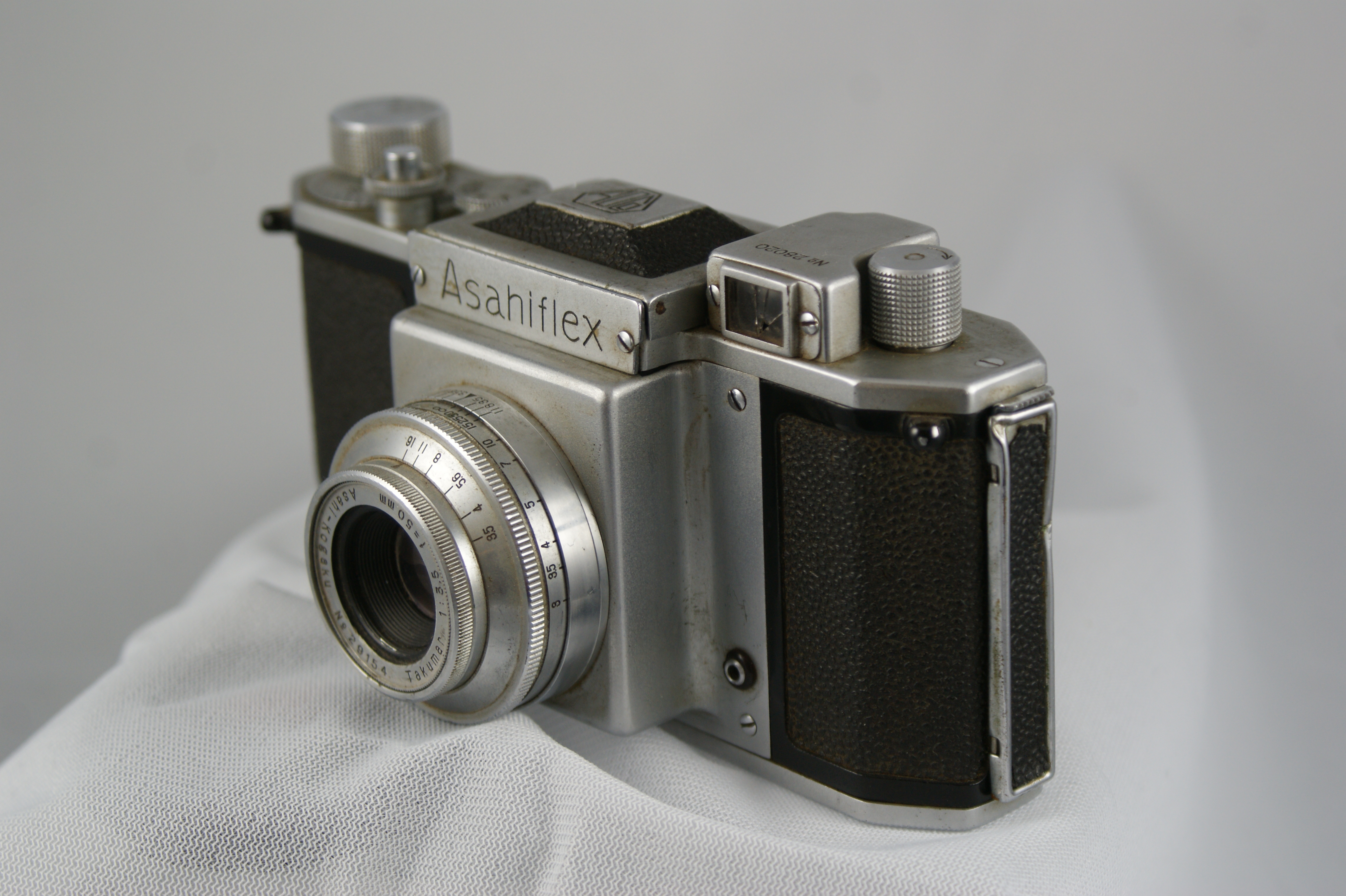 Asahiflex I SLR camera №-28020.